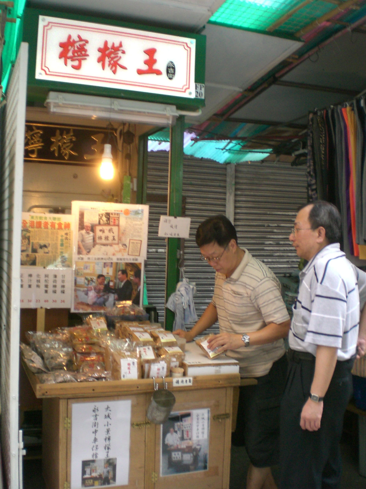 上環zh:永吉街